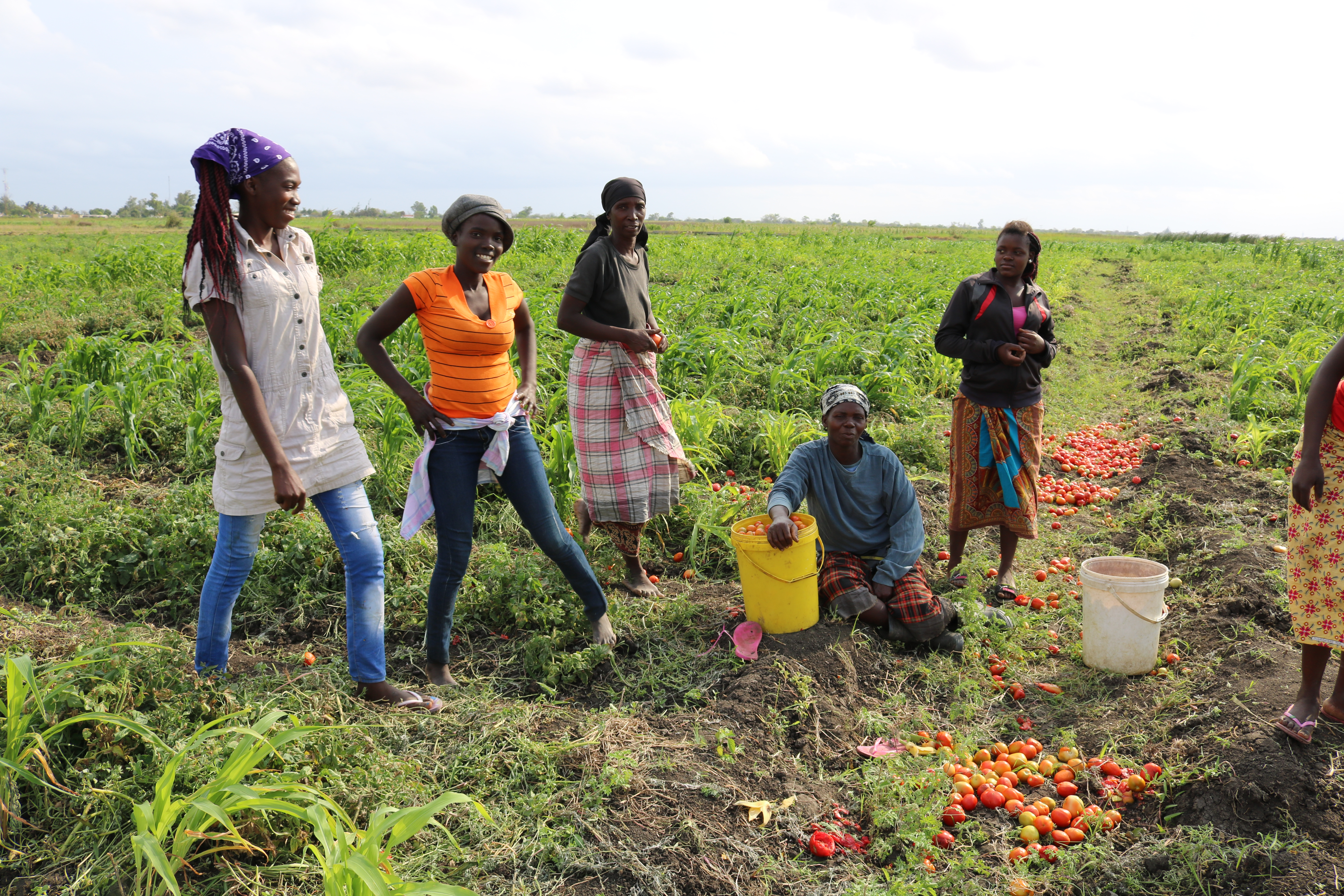 These women were either taking a break or discussing the progress of picking tomatoes at this farm. This is an image of "African people at work" from Mozambique